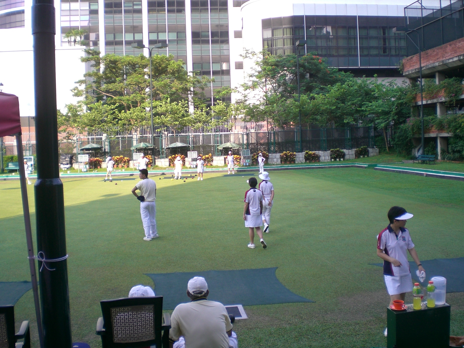 九龍木球會, 佐敦, Kowloon Cricket Club, Cox's Road, 覺士道